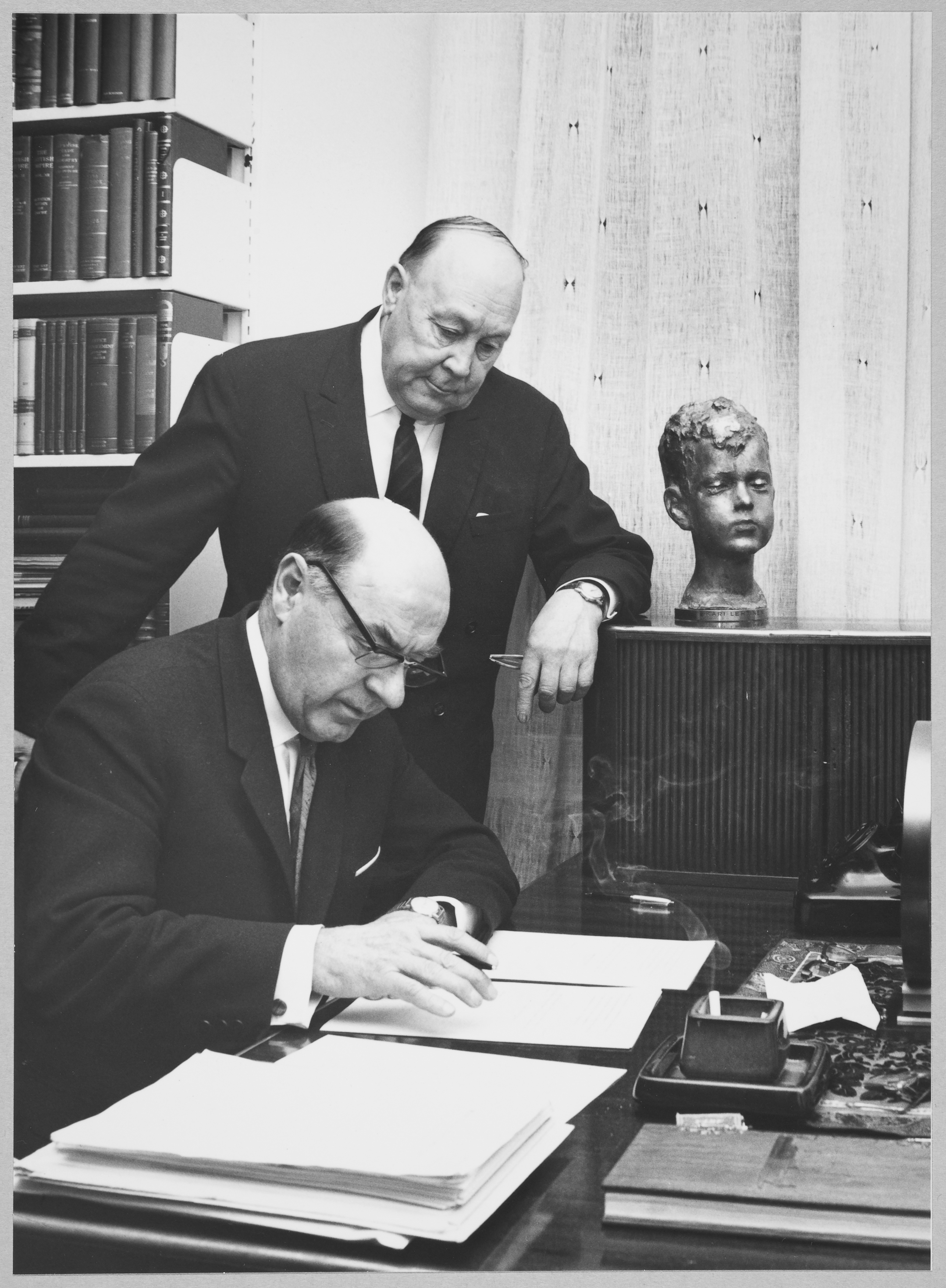 Photograph of the Finnish scholar Lauri Aadolf Puntila (sitting) and the industrialist William Lehtinen (1895–1975).